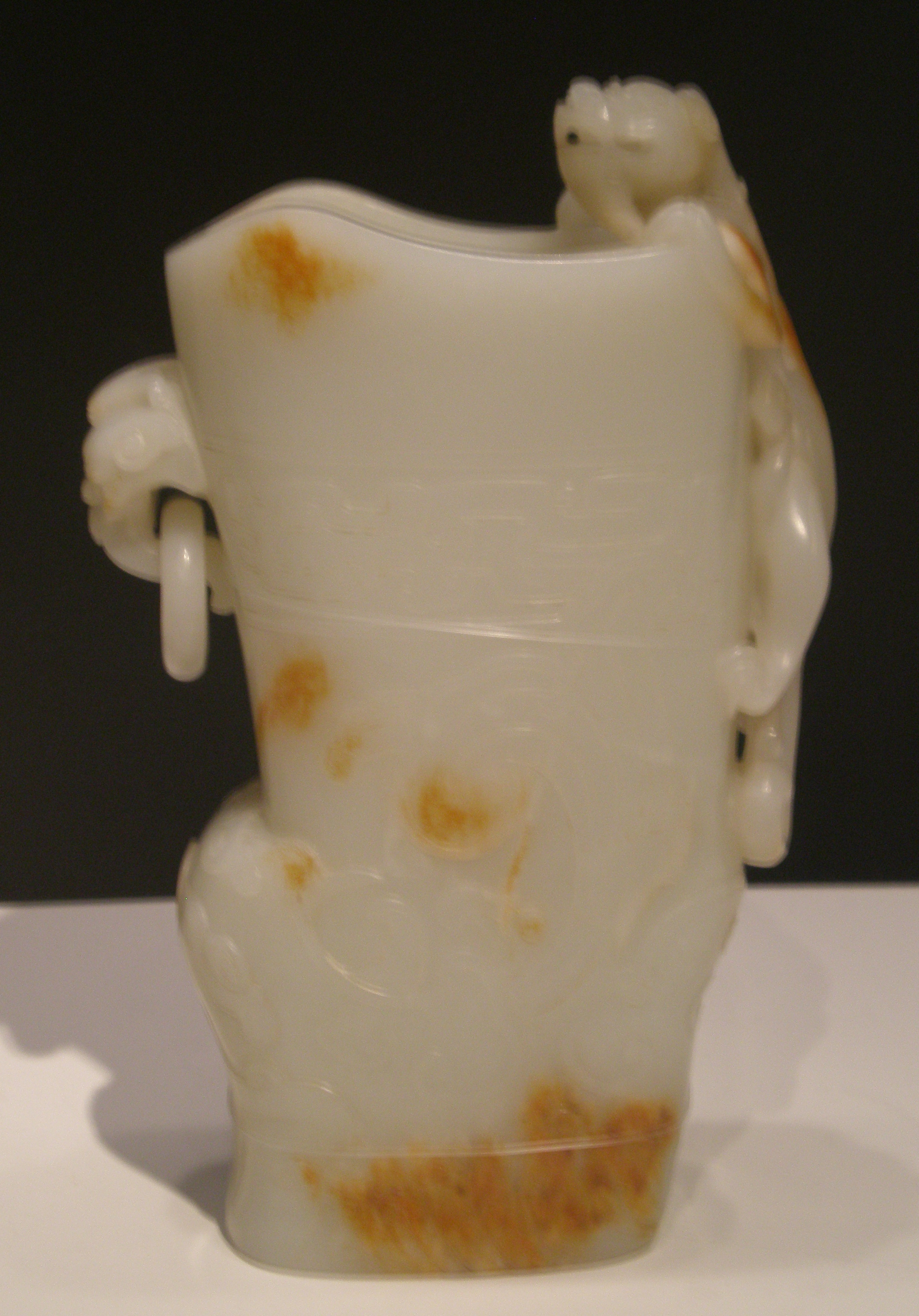 Nephrite vessel or "gong", (1700-1800) on display at the Asian Art Museum in San Francisco, California. B61J1+